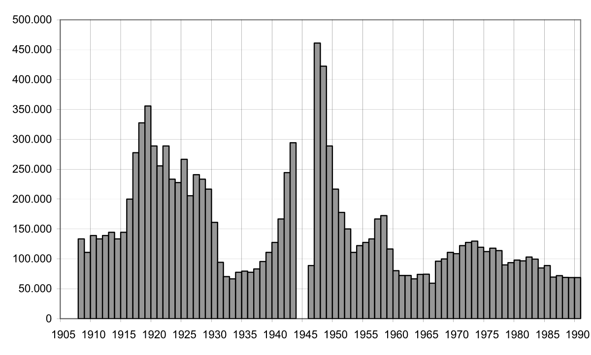 development of passenger traffic on lower Kocher valley railway from 1908 until 1990